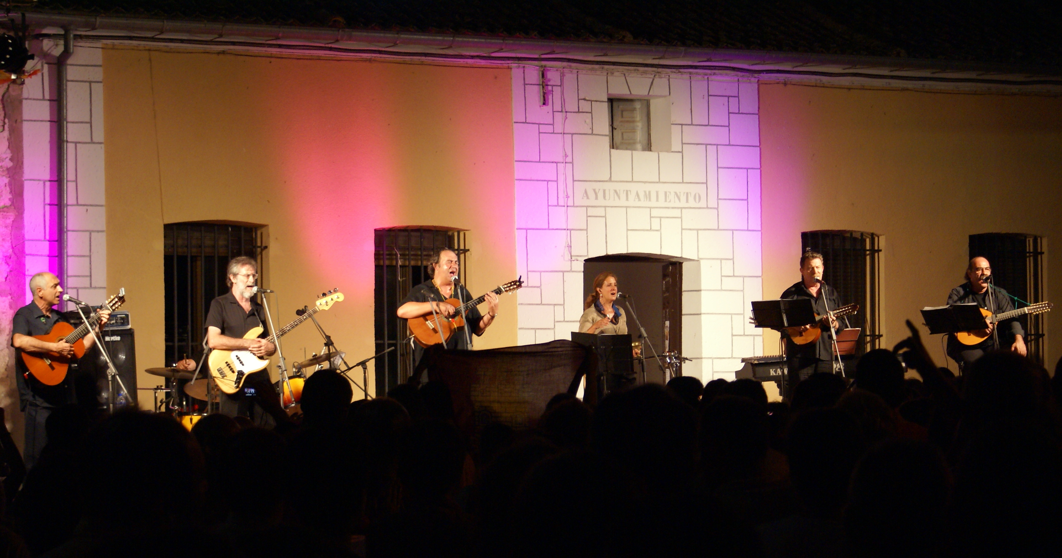 Nuevo Mester de Juglaría playing in Laguna de Contreras, Segovia, Spain.